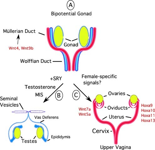 A. Before the embryonic to fetal transition, the gonads and reproductive ducts (Wolffian; blue and Müllerian; red) of the urogenital ridge are bipotential. B. In the presence of the Y chromosome, the gonads of the bipotential urogenital ridge differentiate into testes, which produce both MIS to eliminate the Müllerian ducts and testosterone to stimulate differentiation of the Wolffian ducts into the male internal reproductive tract structures. C. In the absence of SRY, ovaries differentiate, Wolffian ducts degenerate, and Müllerian ducts develop into a simple columnar epithelial tube that will differentiate into the oviducts, uterus, cervix, and upper portion of the vagina.